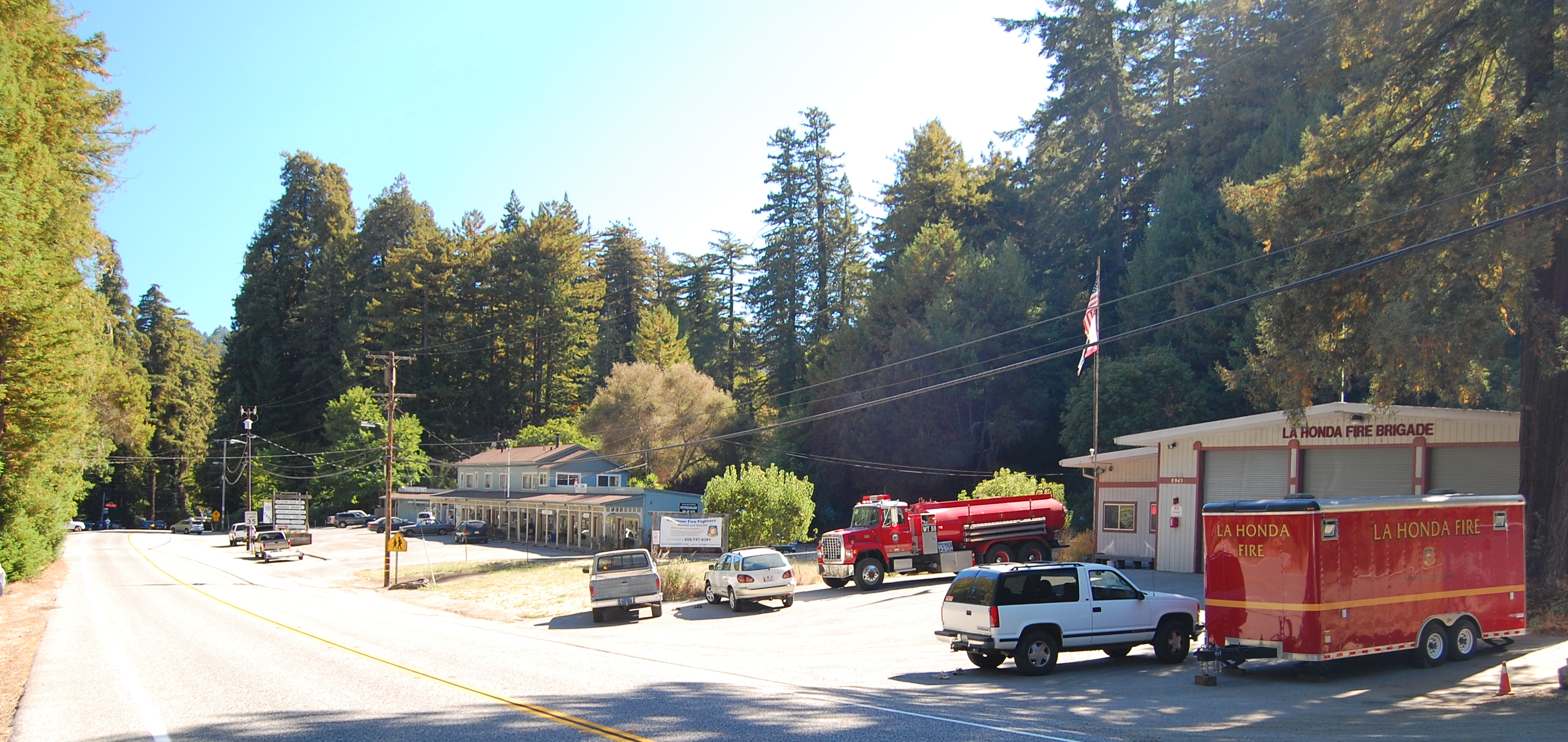 Please credit David Jordan when using this image. Images may have been altered using filters or camera settings. Software may have been used to adjust image attributes such as image file format, image size, composition, contrast, or colors.